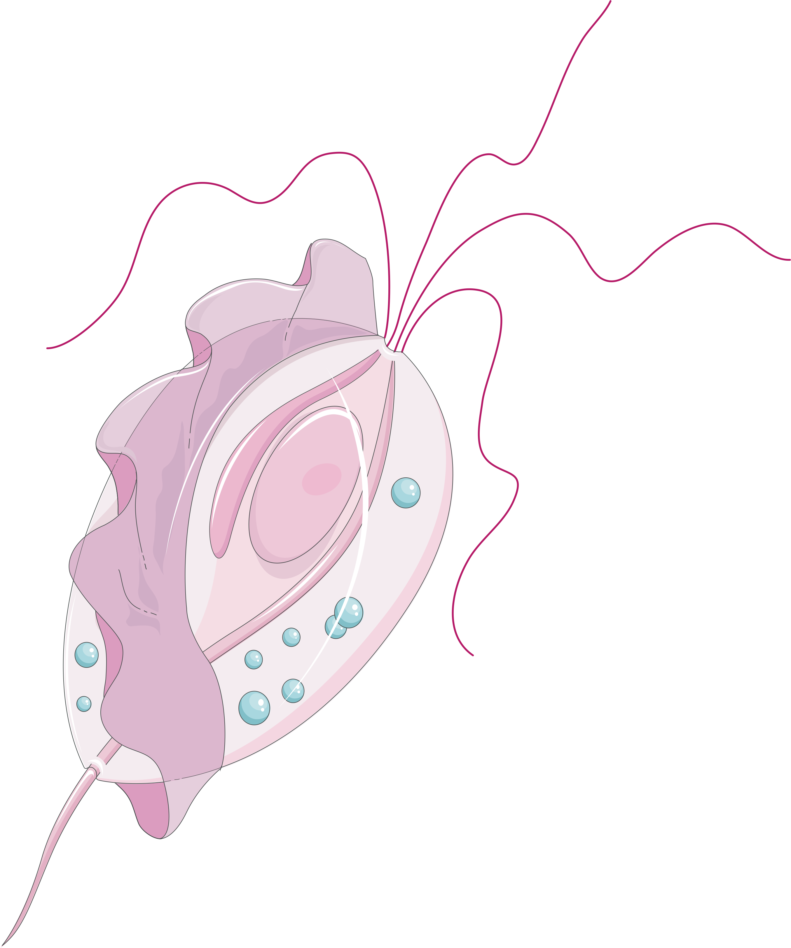 Trichomonas intestinalis